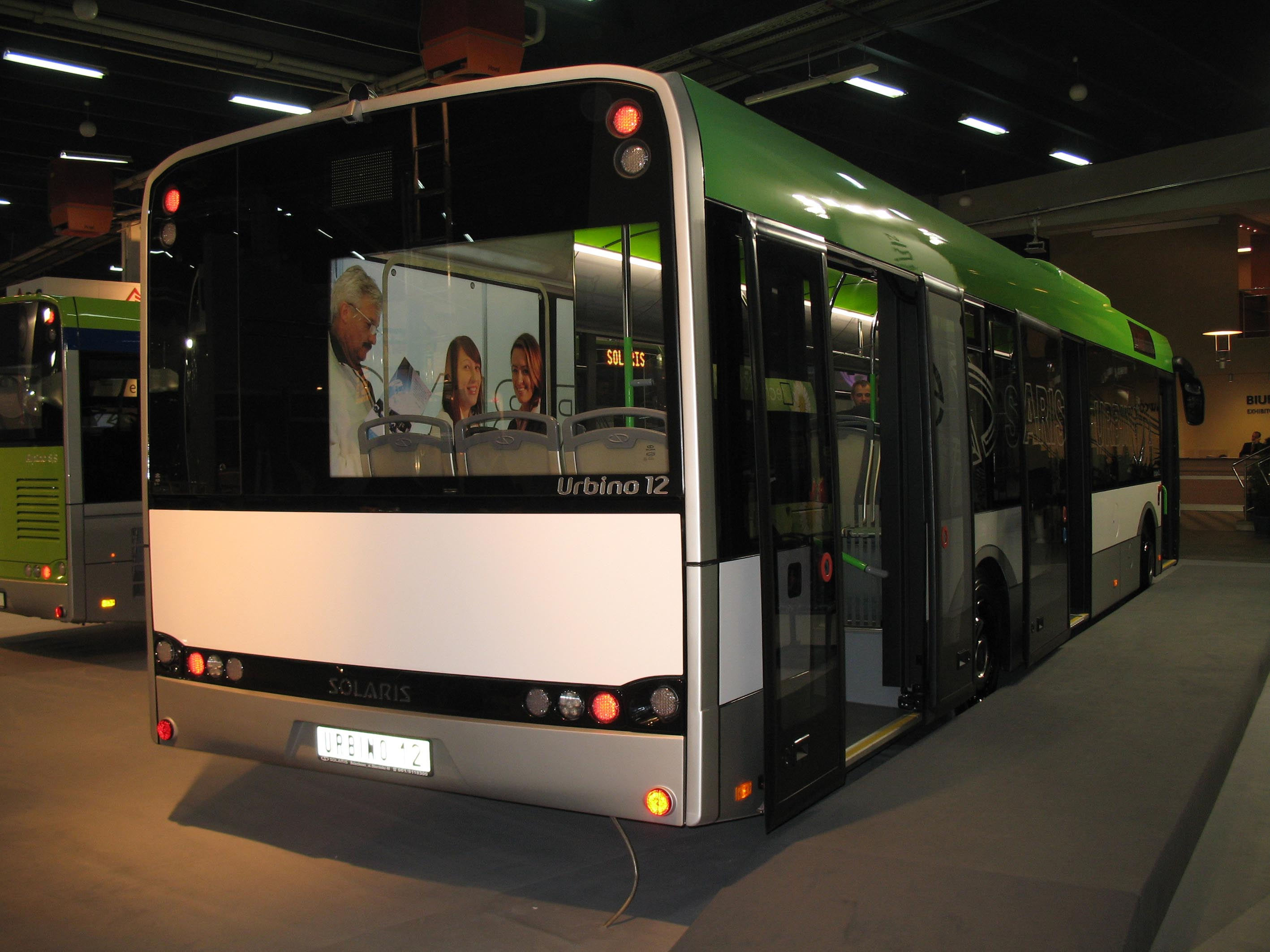 Solaris Urbino 12 New Edition Mk3,5 (body Mk3, interior vision Mk4) city bus in Kielce, Poland. Transexpo 2008 exhibition.